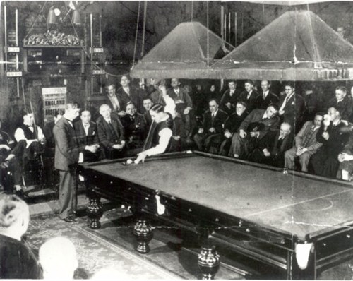 Game: Walter Lindrum vs. Tom Newman (playing)